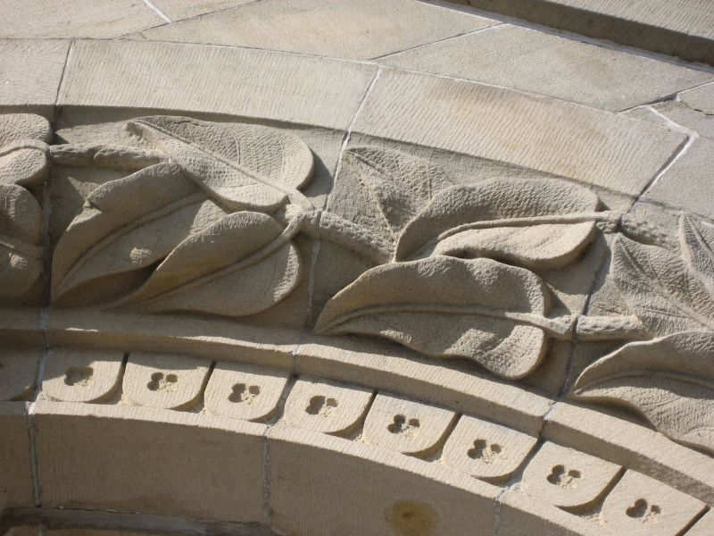 Detail on the St. Thomas church in Mermamcook, New Brunswick.